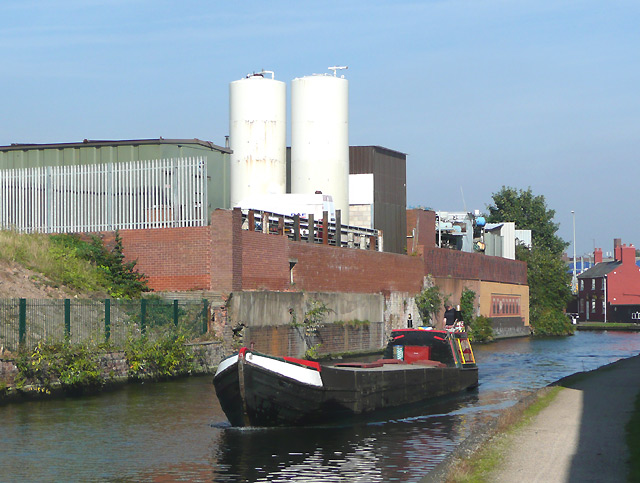 Working canal boat in Aston, Birmingham